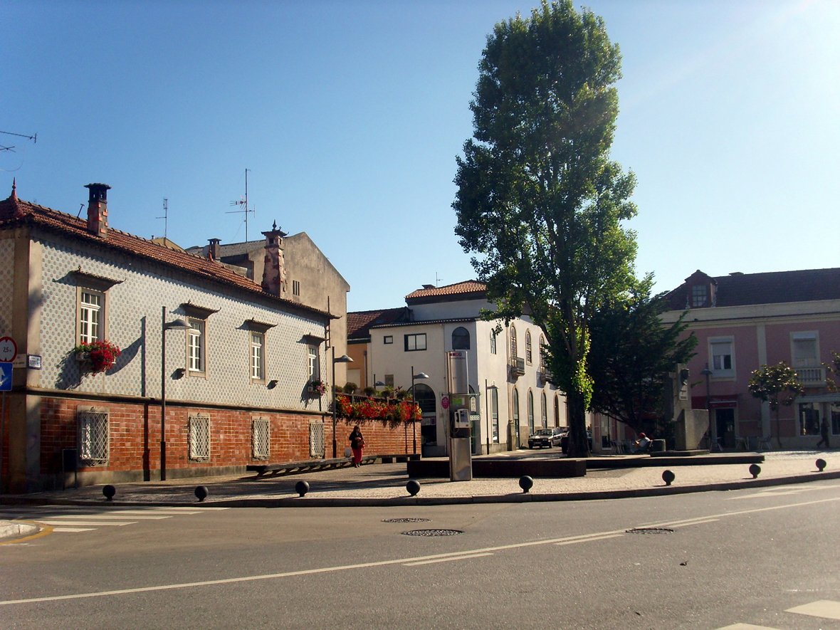 Elísio da Nova Square of Bairro Sul district in Povoa de Varzim, Portugal